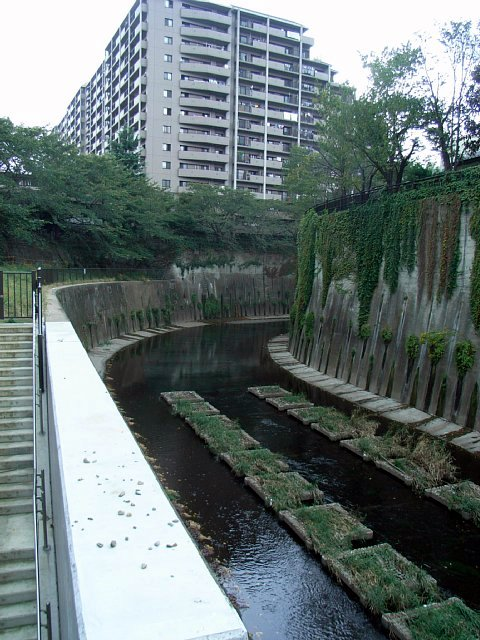 Shakujii River at Kaga 1-chome, Itabashi, Tokyo.